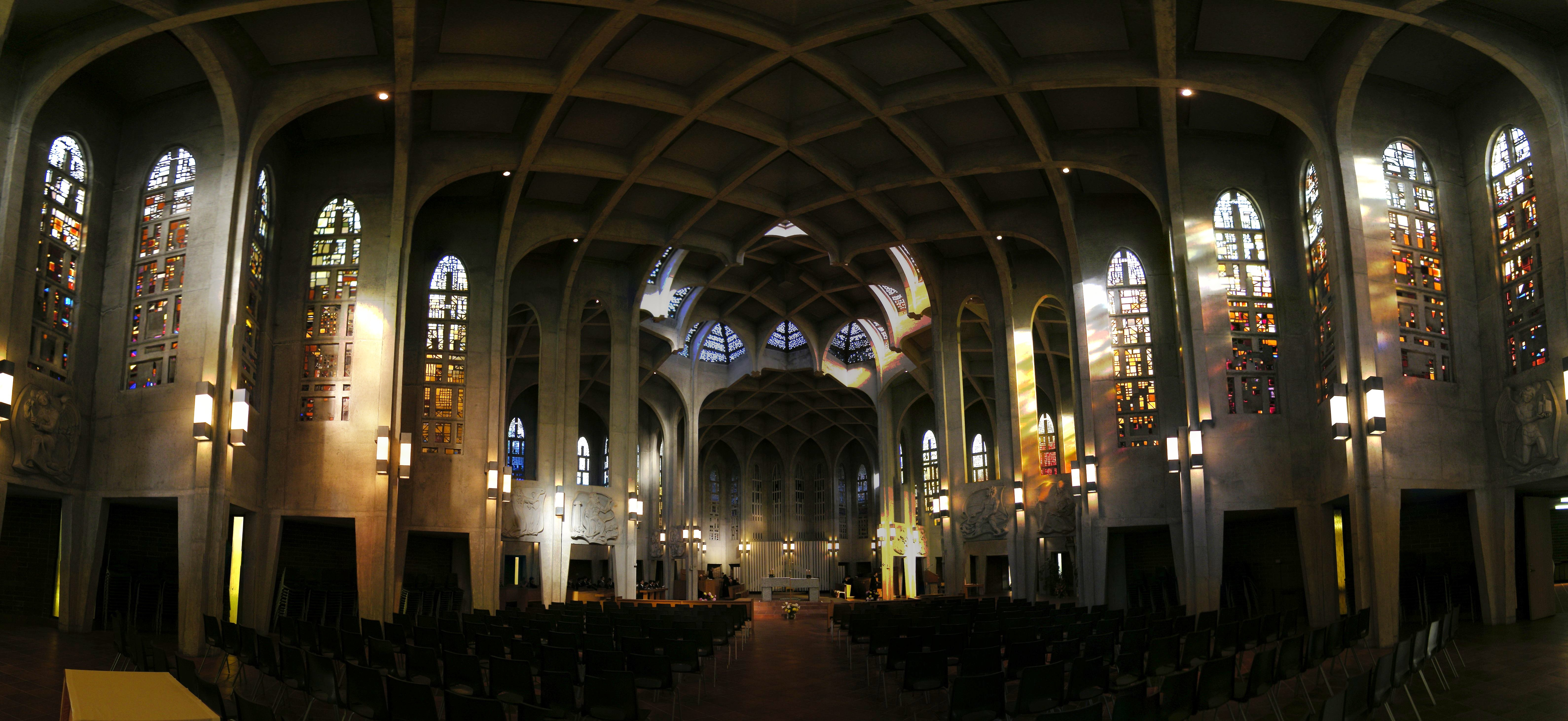 Interior Westminster Abbey, Mission, British Columbia. Pano stitched together with HugIn, slightly cleaned up with GIMP. This image was created with Hugin.